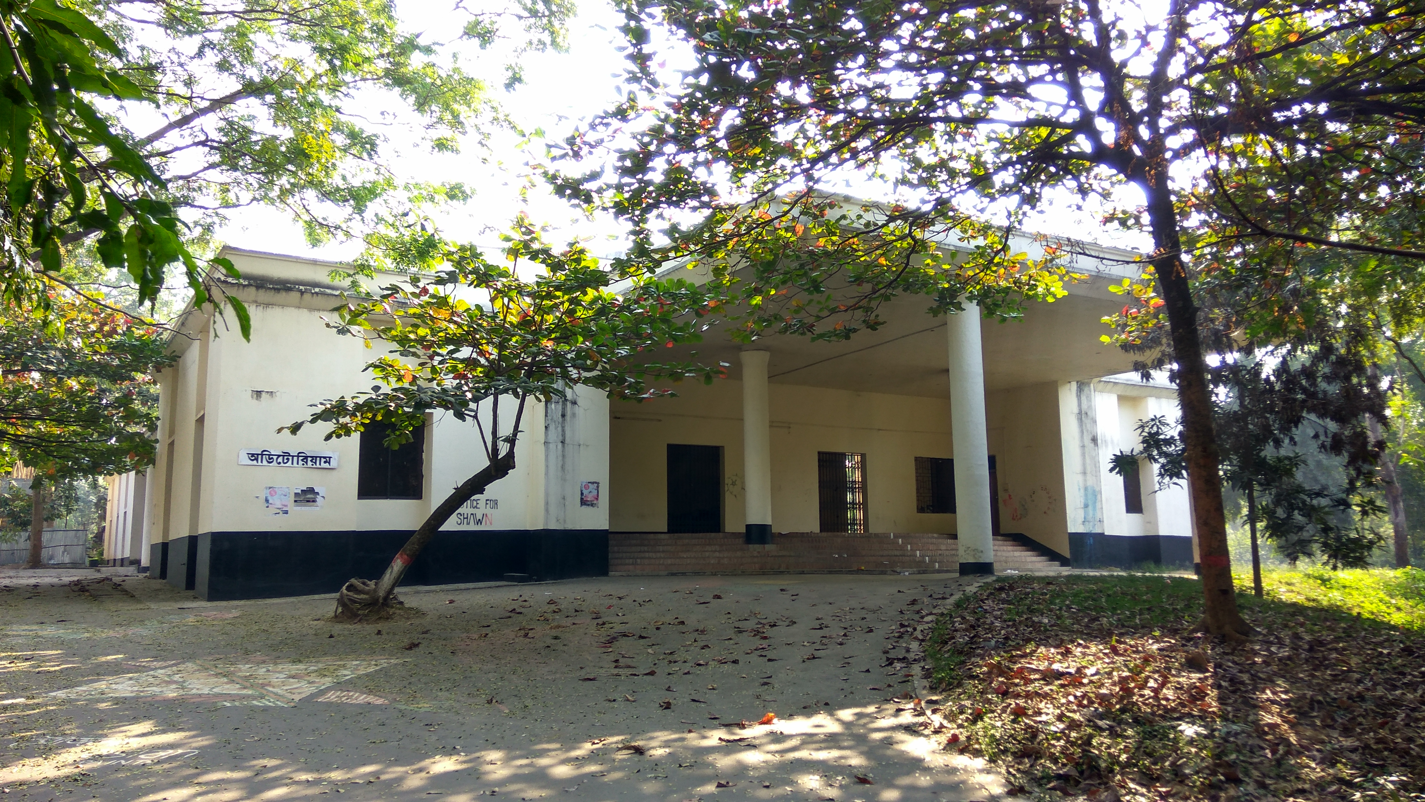 CUET Auditorium